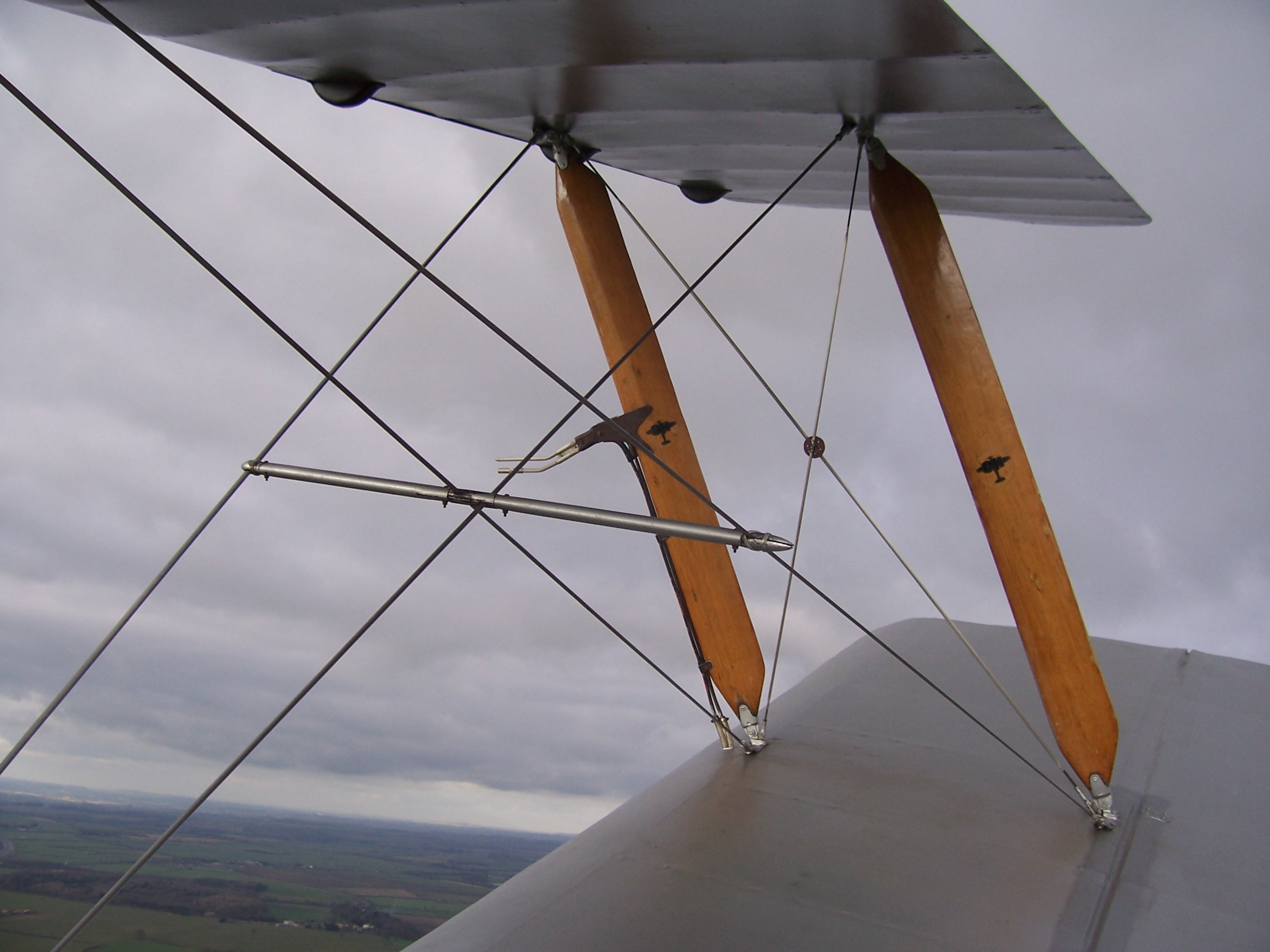 Flying wires of a de Havilland Tiger Moth